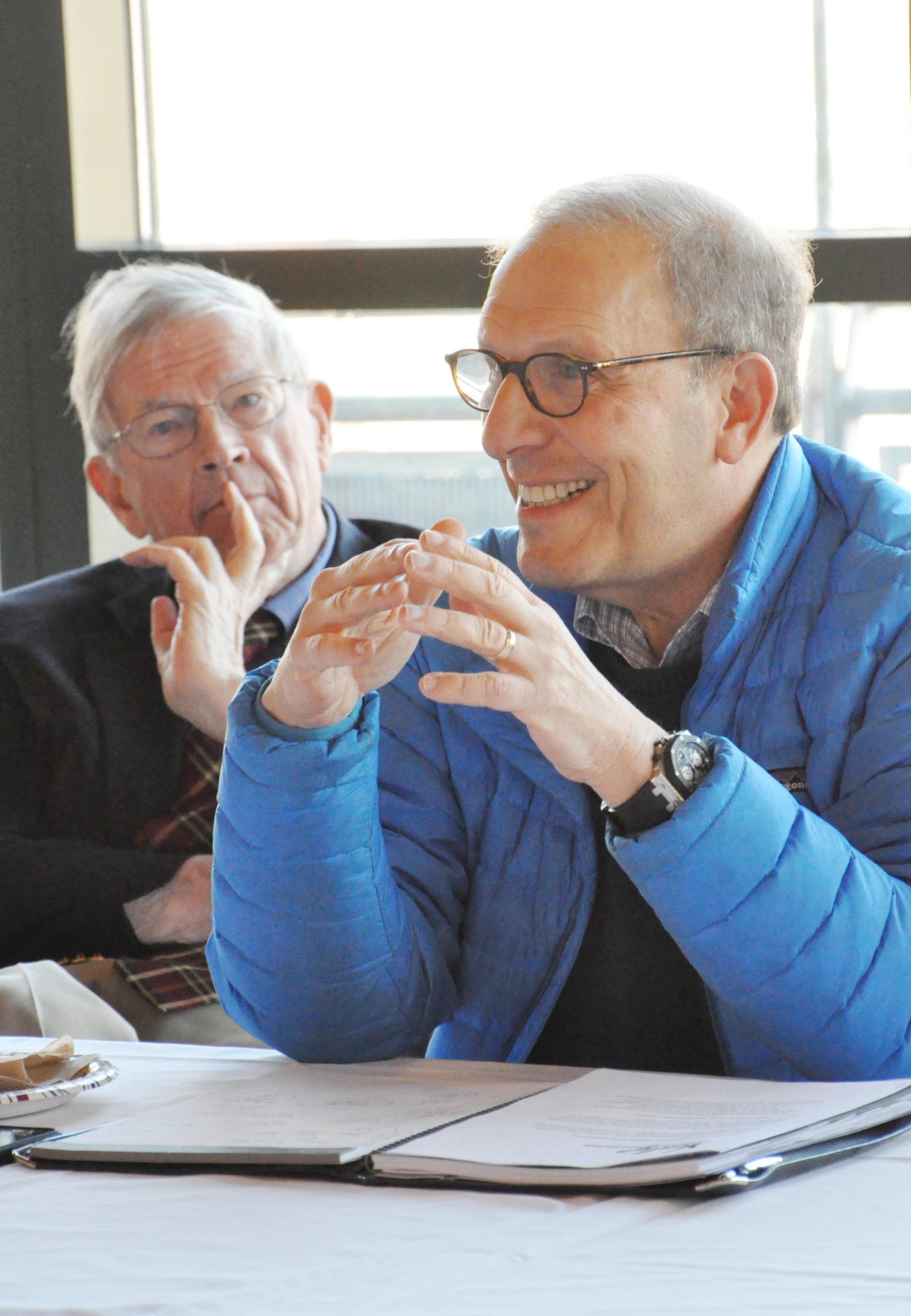 Len Schlesinger co-leading a Community Commerce roundtable with John McArthur in a renovated Blackstone Valley mill.